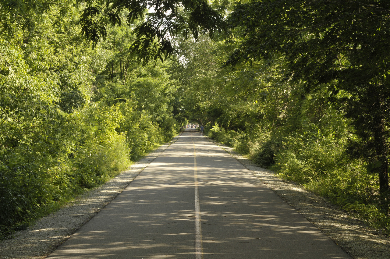 Part of the Carmel section of Indiana's Monon Trail